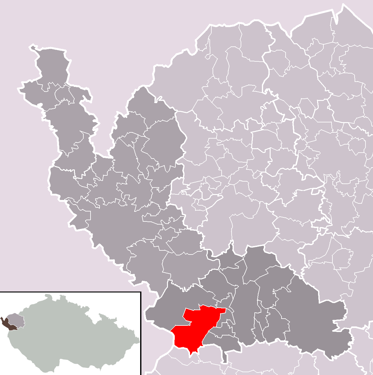 Location of Tři Sekery municipality within Cheb District and administrative area of Mariánské Lázně as a Municipality with Extended Competence.